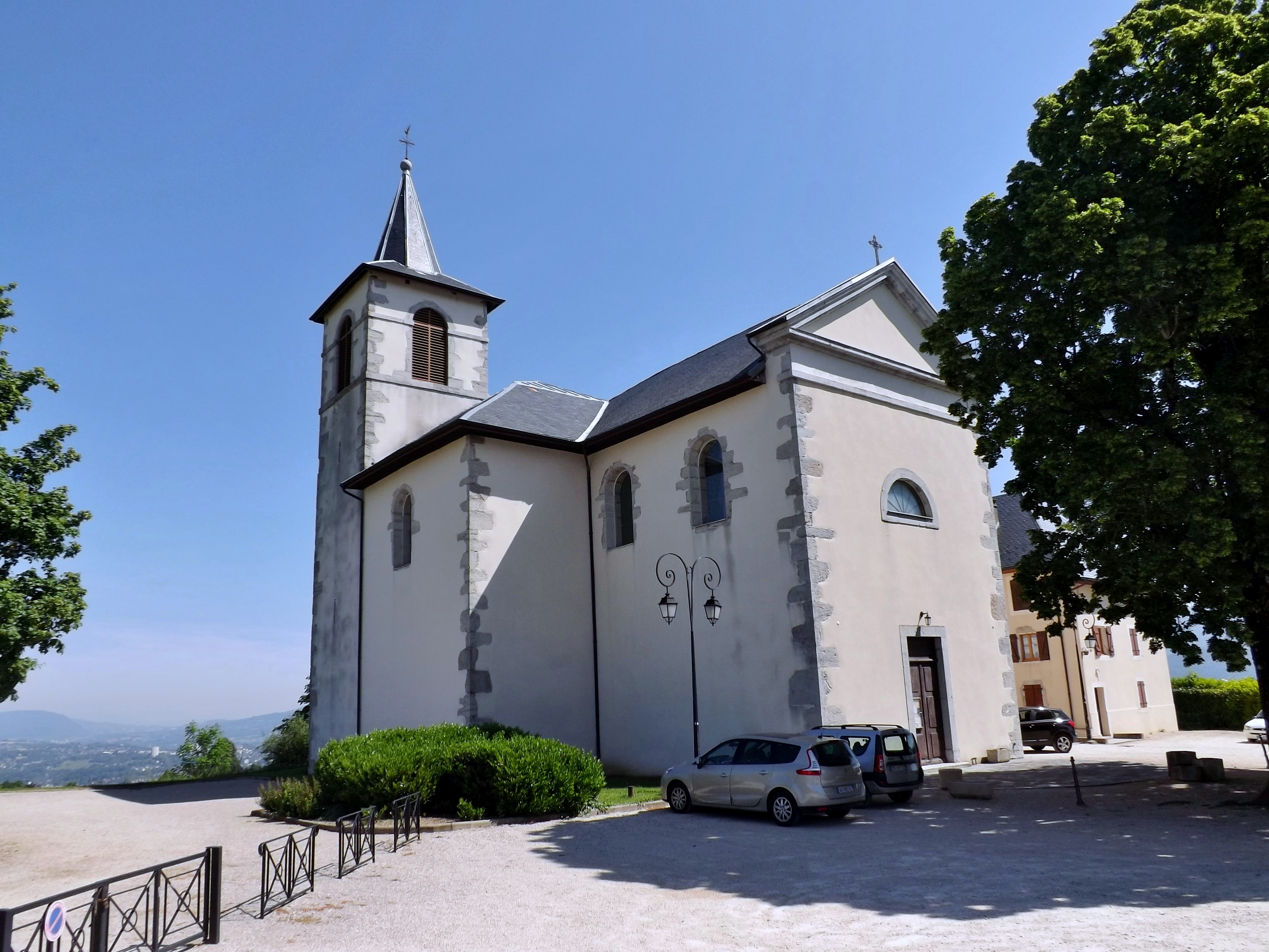 Sight of the église Saint-André church of Montagnole village, on the heights of Chambéry, in Savoie, France.